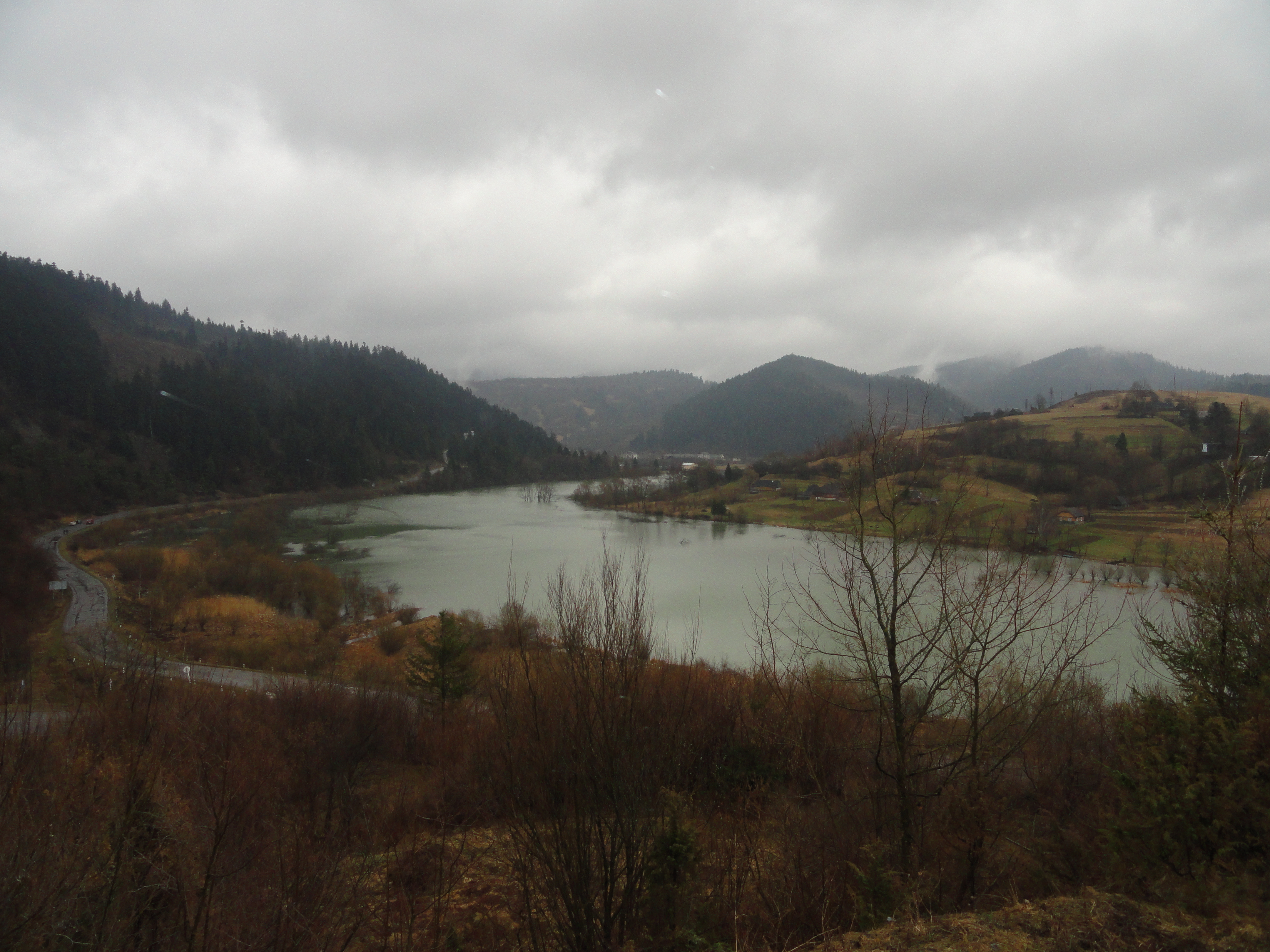 Turka district of Lviv region of Ukraine. Over the river Stryi